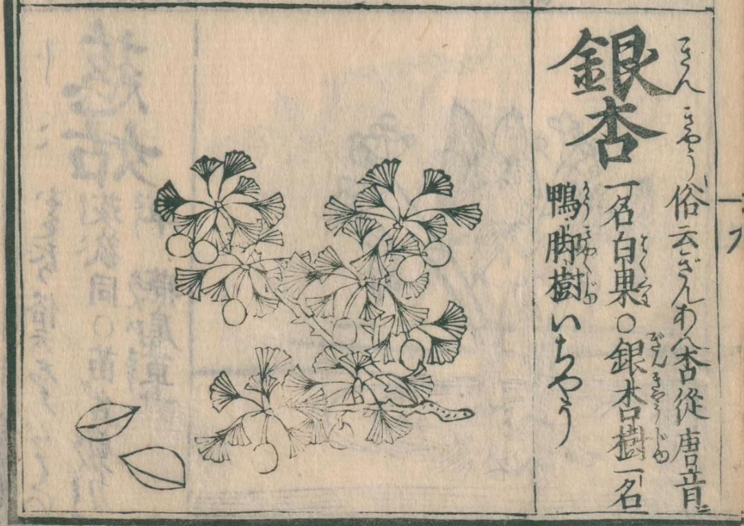 Ginkgo biloba in Tekisai Nakamura (1666) "§ 18 Fruit", Kinmo-zui.